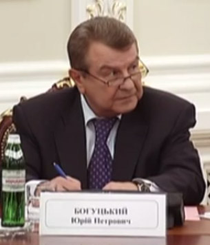 Yuriy Bohutskyi, Ukrainian politician, former Minister of Culture of Ukraine